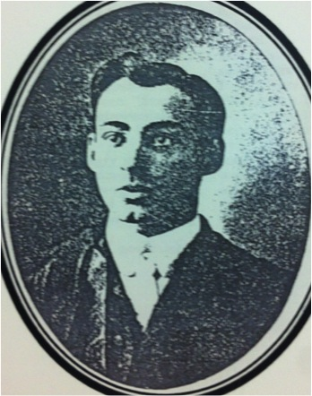 Roy Leitch, Nova Scotia, c. 1914